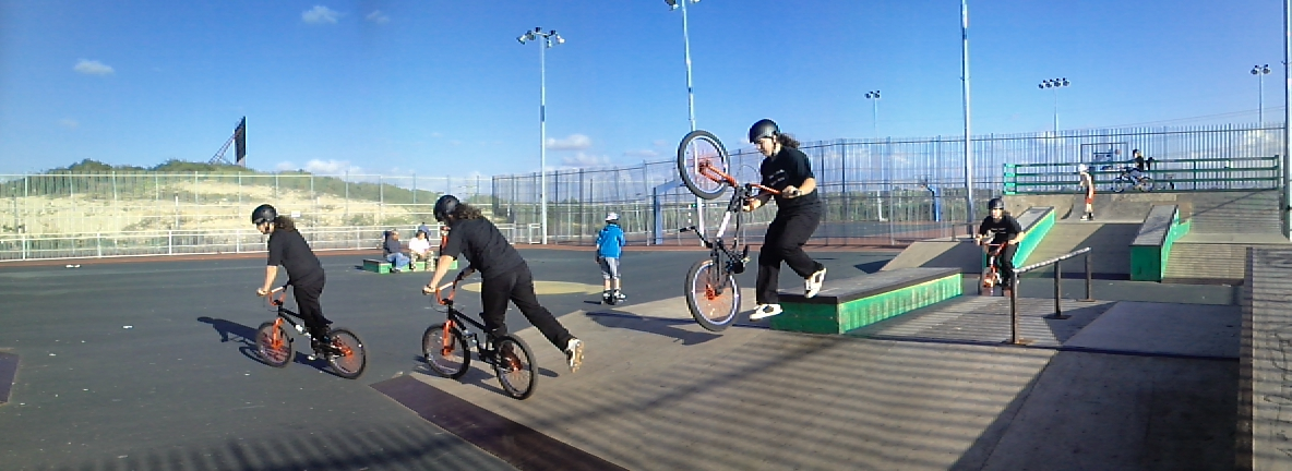 ActionShot image captured by Samsung Omnia device